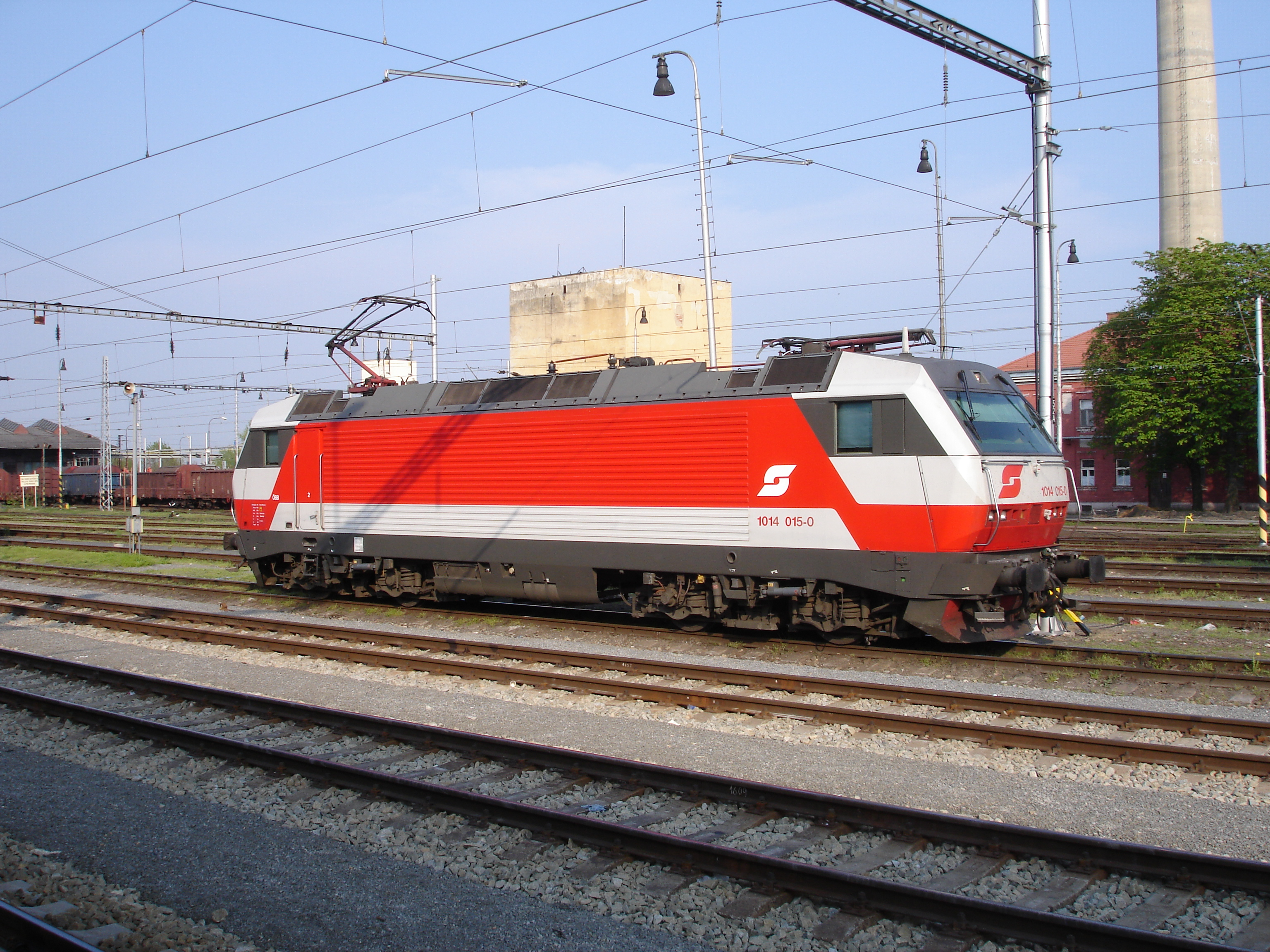 locomotive ÖBB 1014 in Břeclav, Czech republic